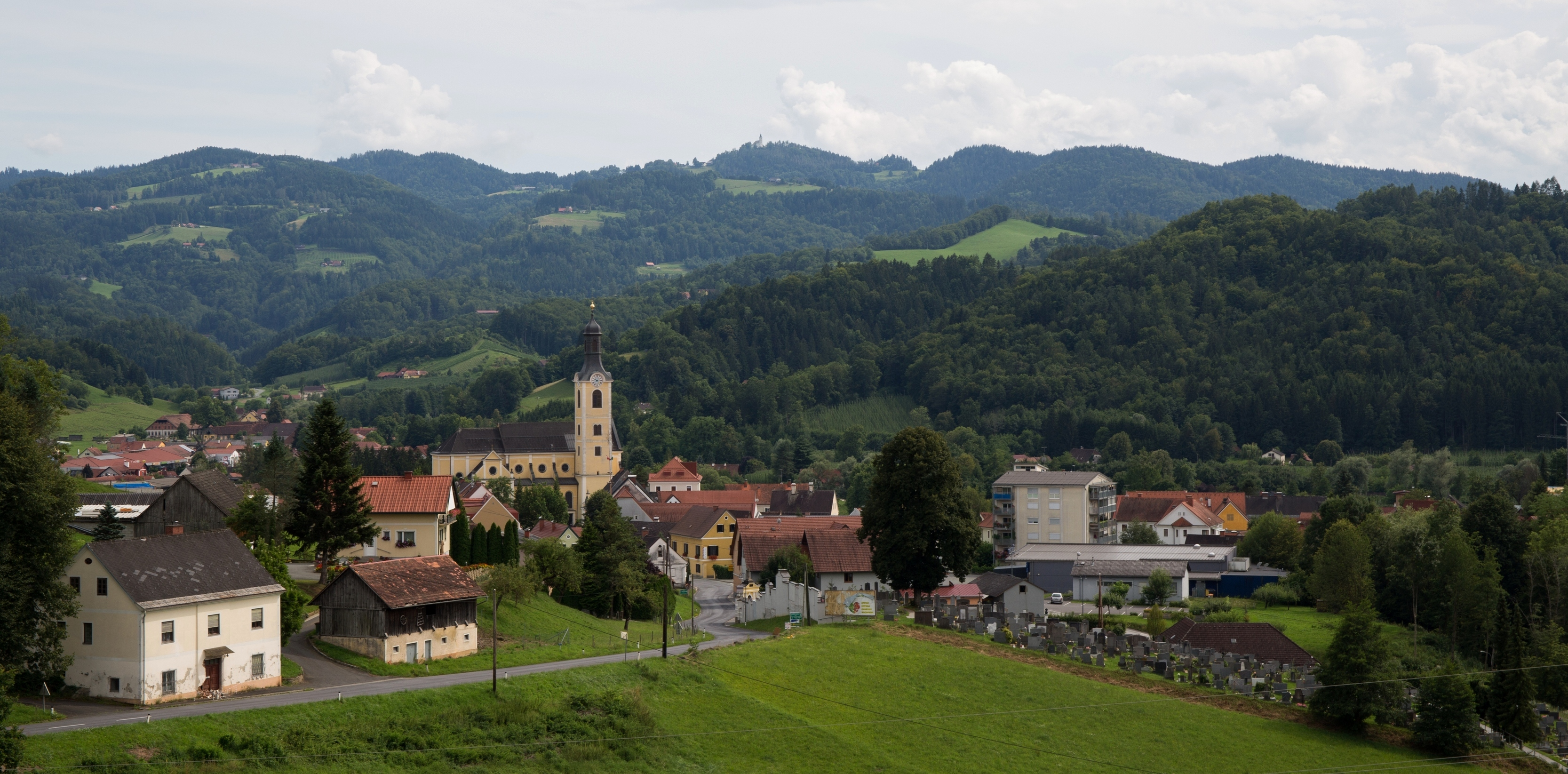 The village Leutschach in Styria, Austria Leutschach an der Weinstraße